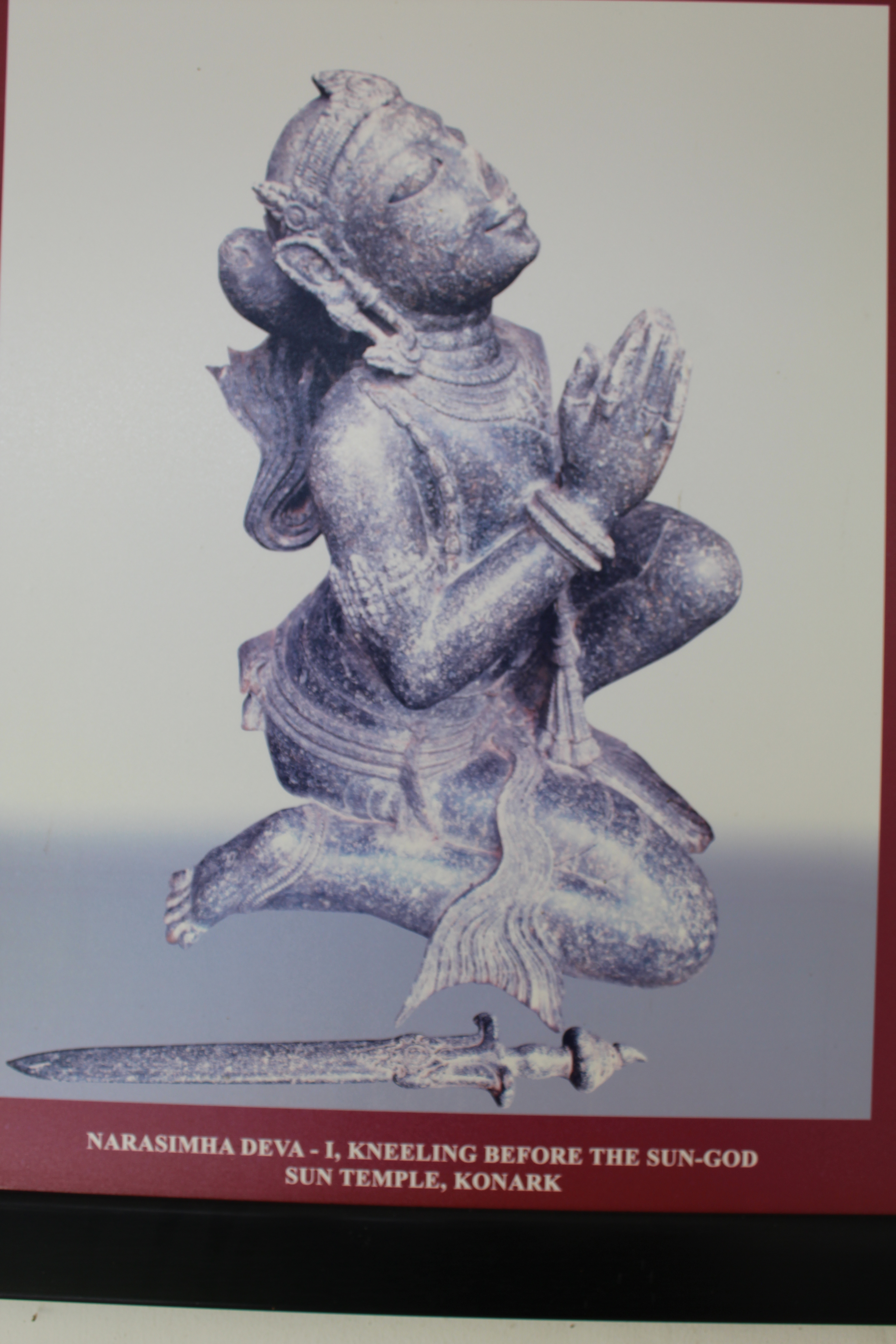 Narasimha Deva I, kneeling before the sun-god, Sun Temple, Konark.